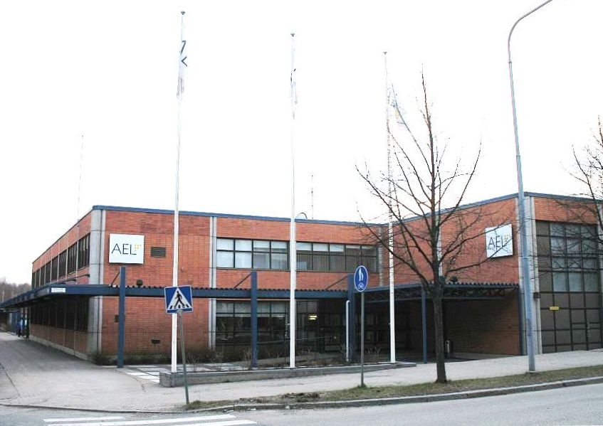 AEL tiloja Helsingin Malminkartanossa (2008). AEL = entinen Ammattienedistämislaitos. Huom: Muista säilyttää viittaus kuvaajaan, mikäli käytät kuvaa.